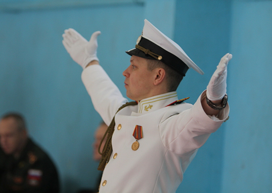 Музыканты Тихоокеанского флота участвуют в смотре-конкурсе военных оркестров Минобороны России